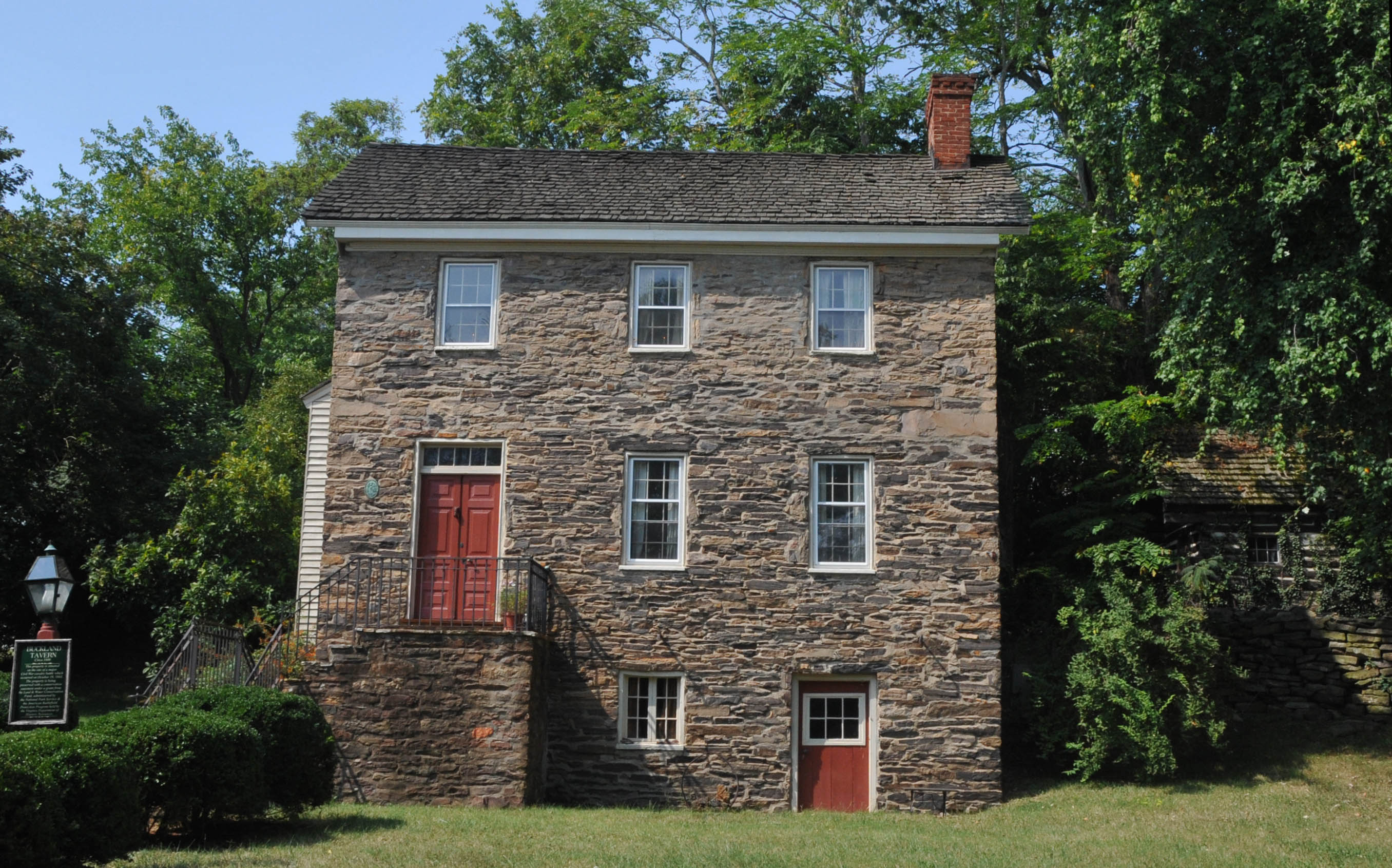 BUCKLAND TAVERN; CIRCA 1800; STANDS ON THE SITE OF A MAJOR CIVIL WAR BATTLE AND NOW PRESERVED BY THE NATIONAL PARK SERVICE